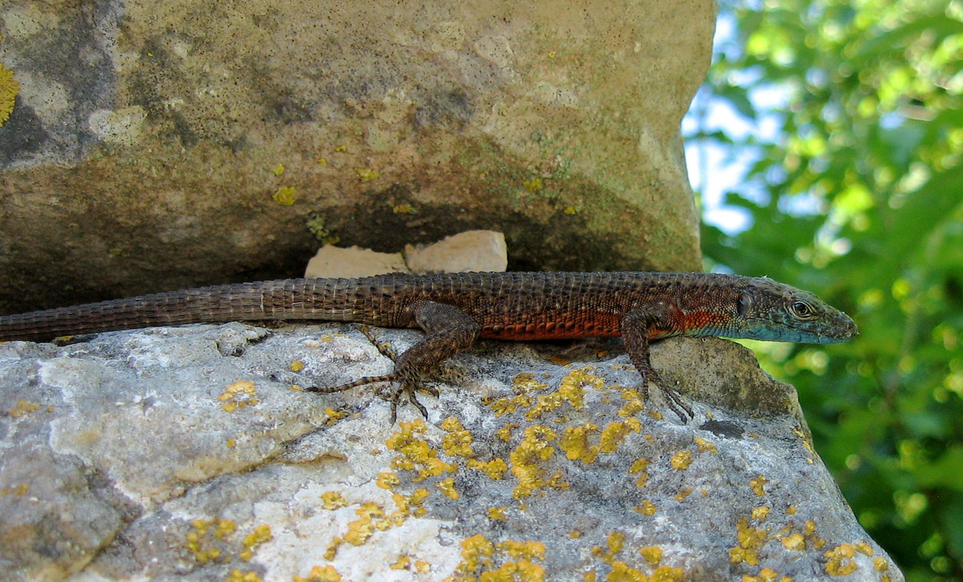 Male specimen of the lizard Algyroides nigropunctatus from Istria/Croatia.